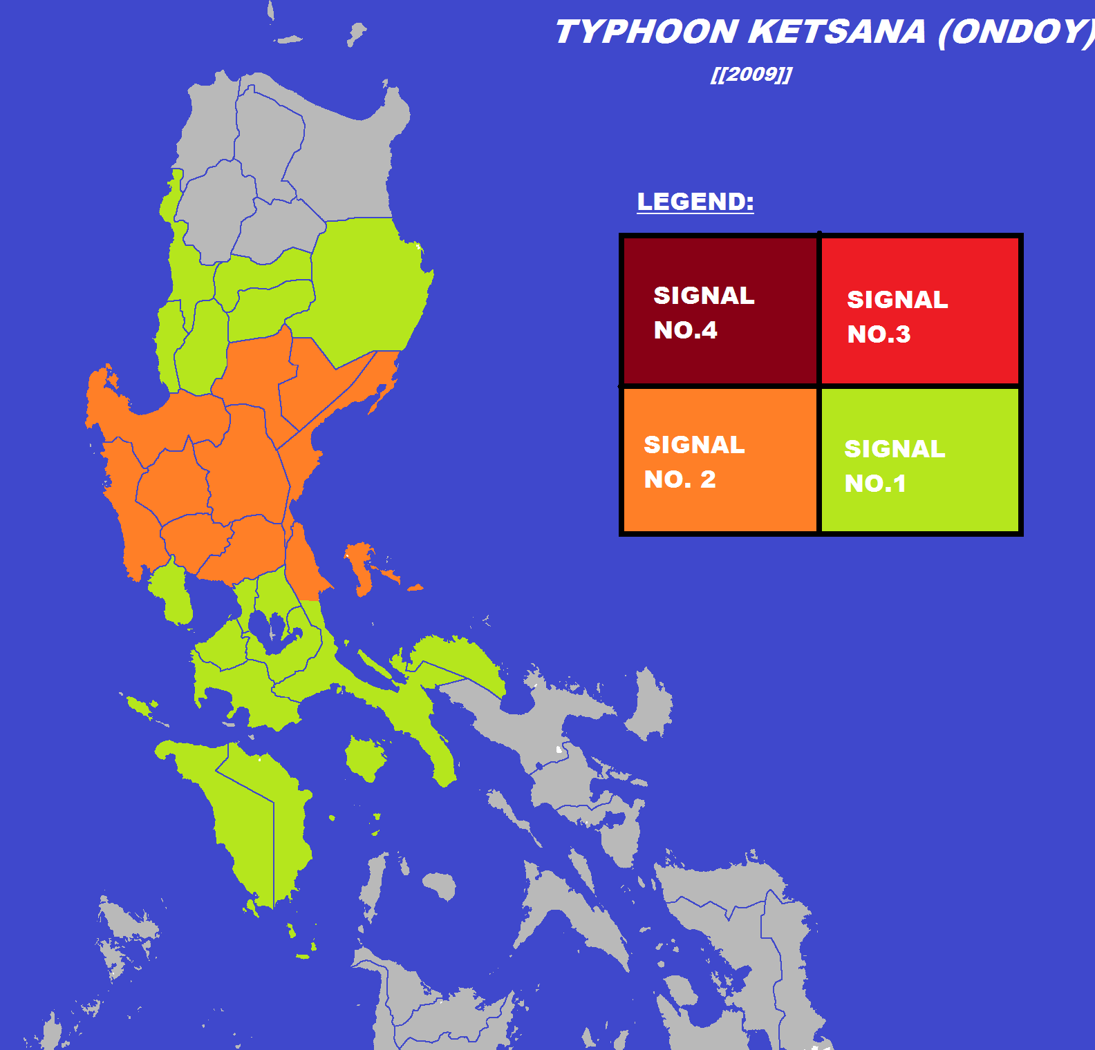 Typhoon Ketsana local name Ondoy Public Storm Warning Signal Map during it affects the Philippines